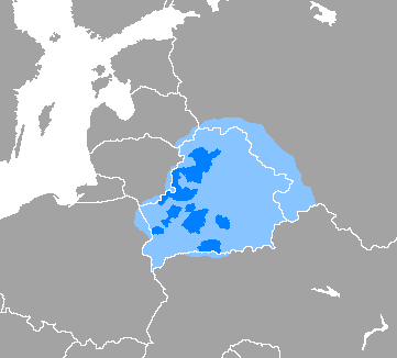 Belorussian speakers: Majority Minority